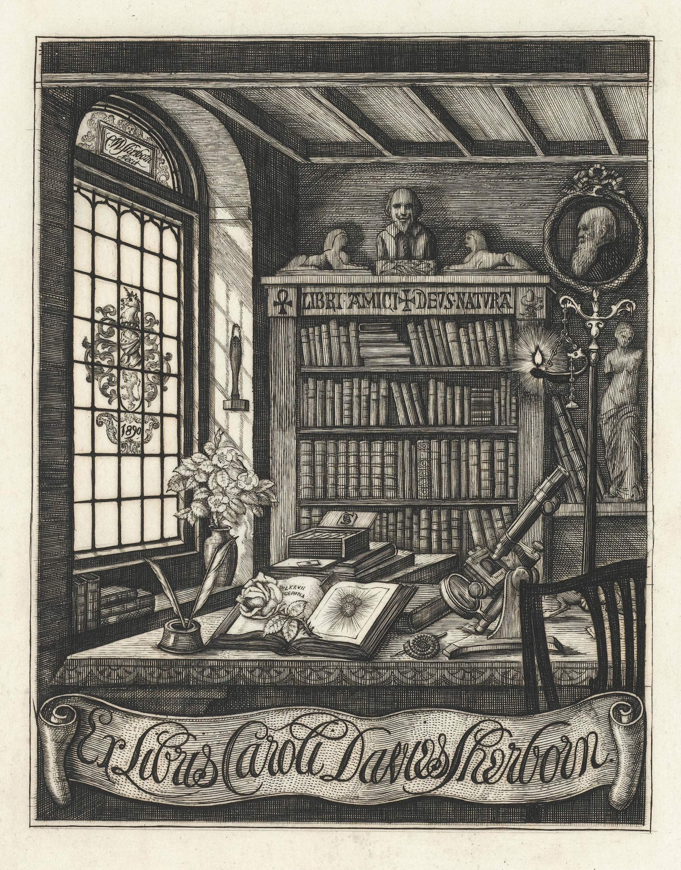 A scholar's study. Among items shown are a bust of Shakespeare, a profile portrait of Charles Darwin in a roundel, statuettes of the Sphinx and of the Venus de Milo, plants, a microscope, and a bookcase of 16th-18th century books, reflecting the bibliographical, antiquarian and natural historical interests of Charles Davies Sherborn, then engaged on the first volume of his Index animalium 1785-1850 Iconographic Collections Keywords: Charles William Sherborn